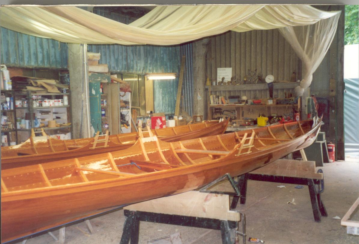 Newly built racing skiffs Romney Lock